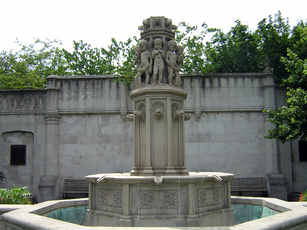 Picture of the fountain at Mellon Park in the Point Breeze neighborhood of Pittsburgh, on 12 July 2008. A portion of Mellon Park is also located in the Shadyside neighborhood. The park was established in 1943 on the grounds of the former estate of Richard B. Mellon. The gardens were originally designed in 1912 by Alden and Harlow. Several other architects added their own touch to the landscape including the Olmsted Brothers and some seventeen years after the garden began, Vitale and Geiffert. The fountain seen in this picture was designed and built by Edmond R. Amateis in 1927. Mellon Park is on the List of Pittsburgh History and Landmarks Foundation Historic Landmarks.